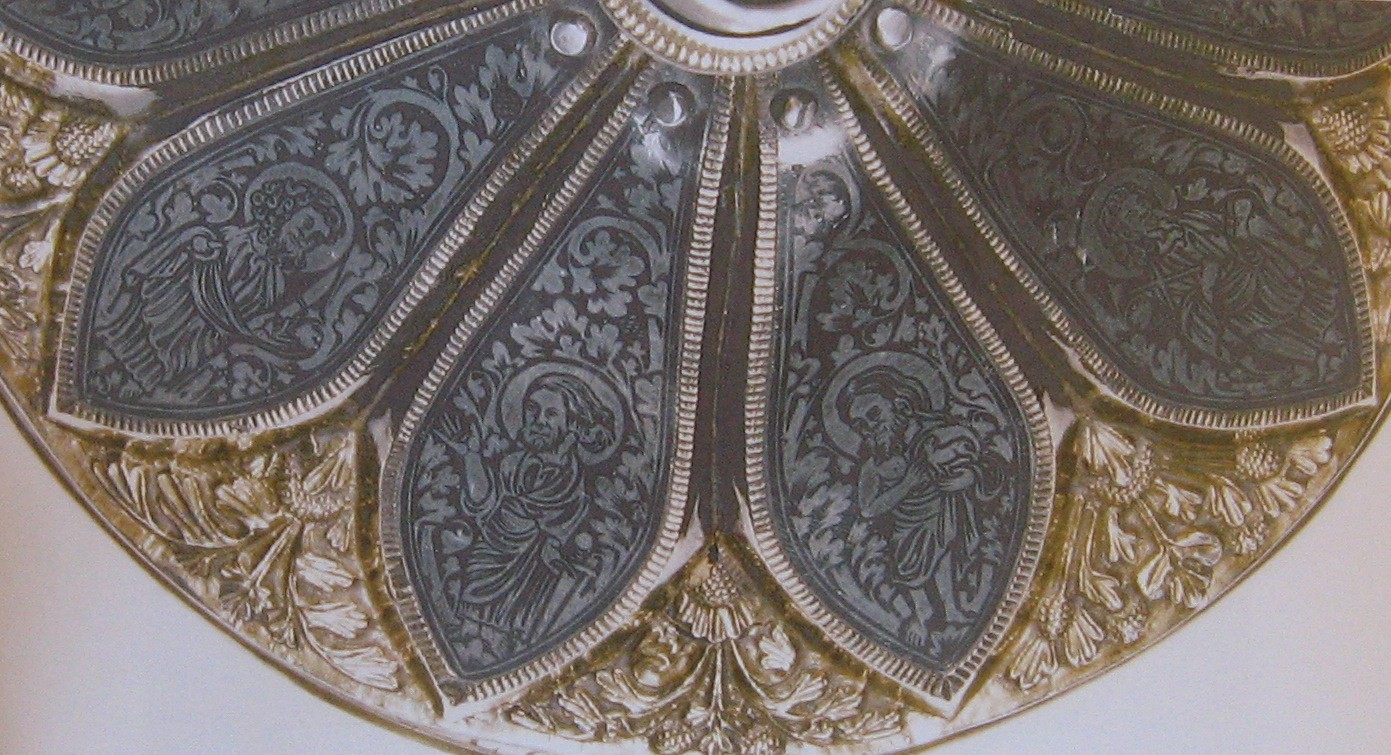 Chalice (ofGilles de Walcourt and Patene